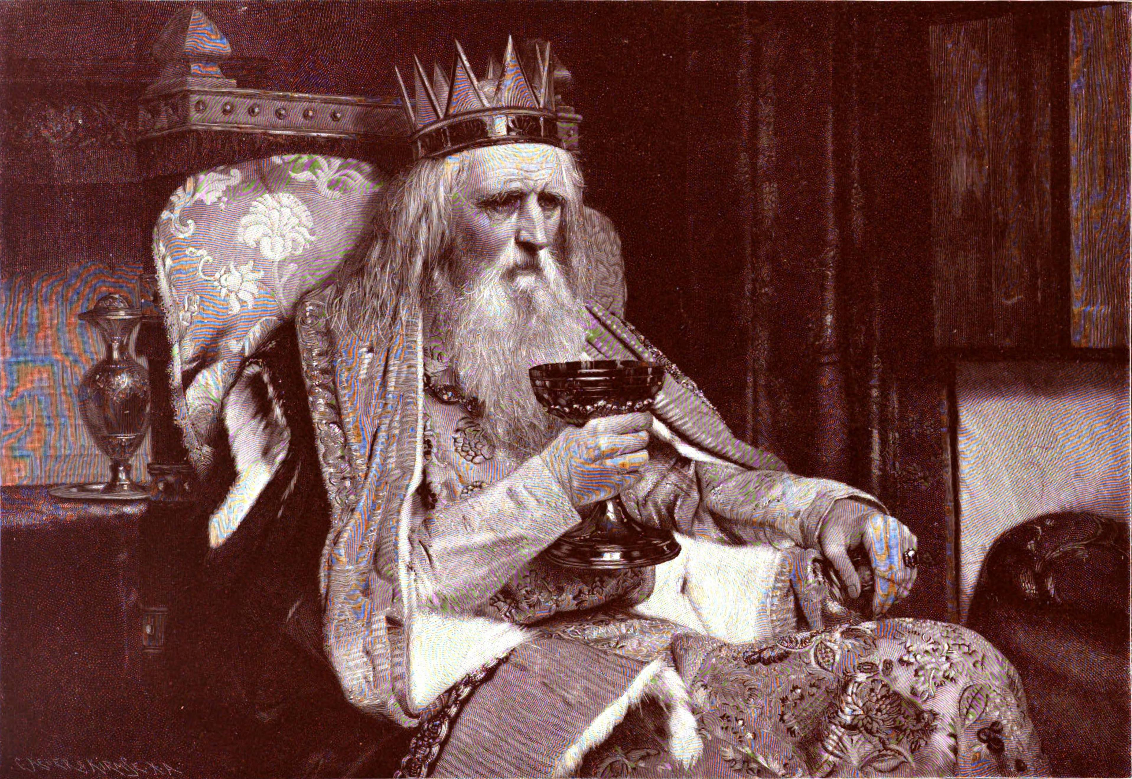 no caption